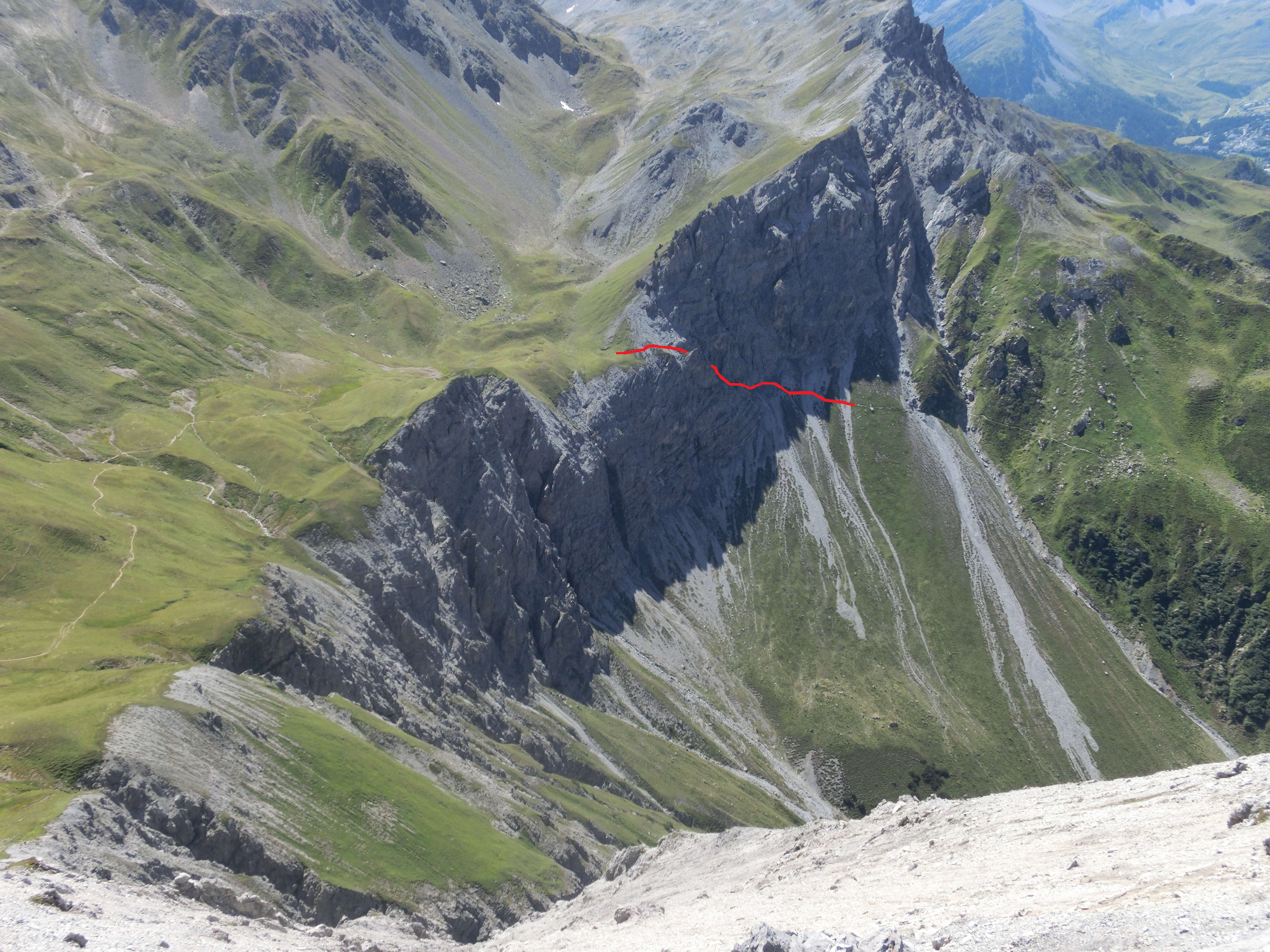 Tritt, picture taken from Chüpfenflue. The course of the path through the rocks is marked red. Arosa, Davos, Grison, Switzerland